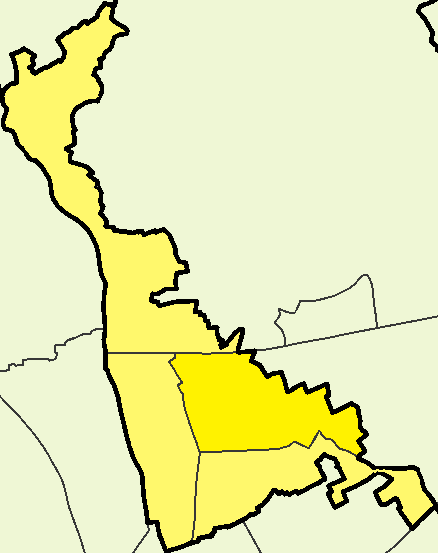 Timios Prodromos in Mesa Geitonia.